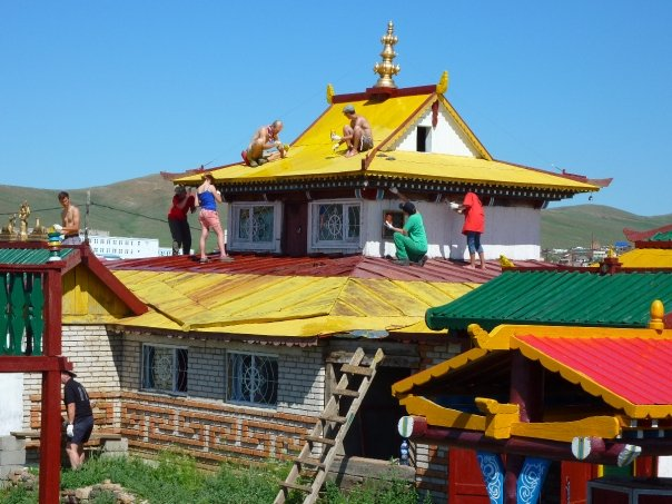 Rover Scouts re-painting the new Manzushir Khiid in Zuunmod